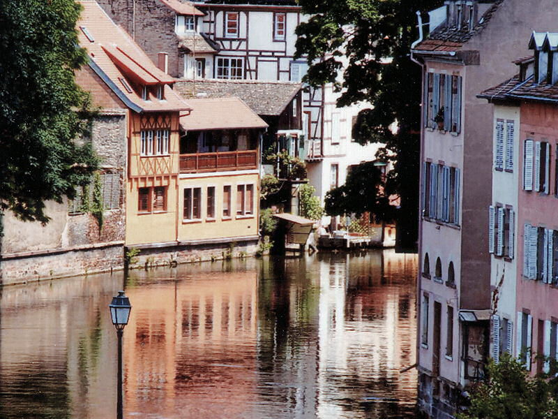 La Petite France